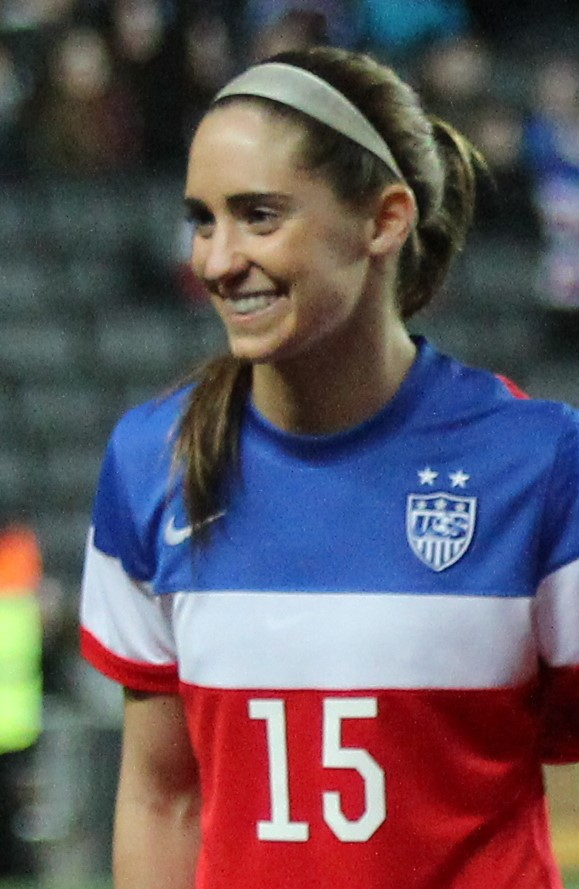 USA Women's before the international friendly against England.